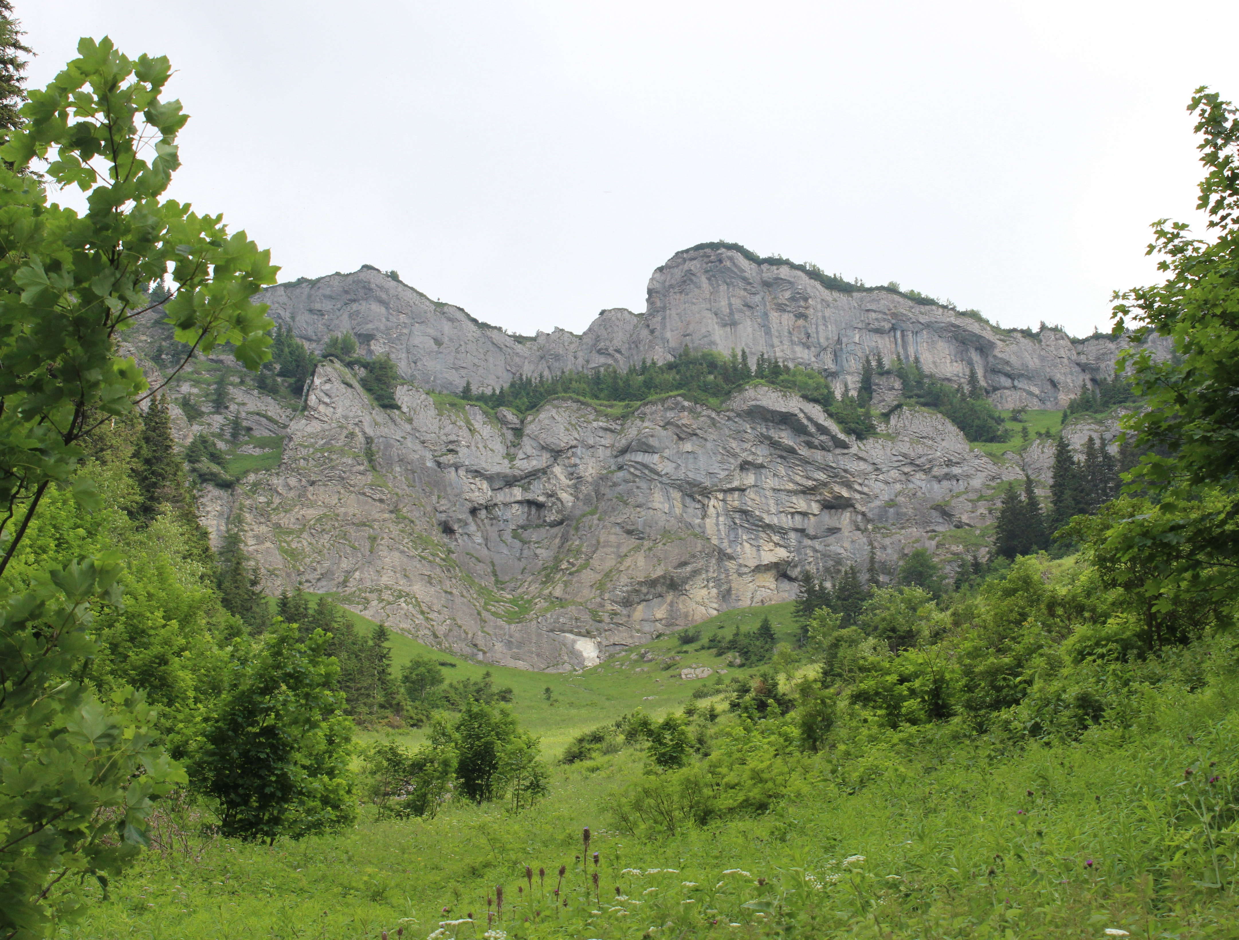 Belianske Tatra Mountains - on the tourist path from Tatranska kotlina to Plesnivec mountain hut. Slovakia This photograph was taken with a DSLR from WMCZ's Camera grant.